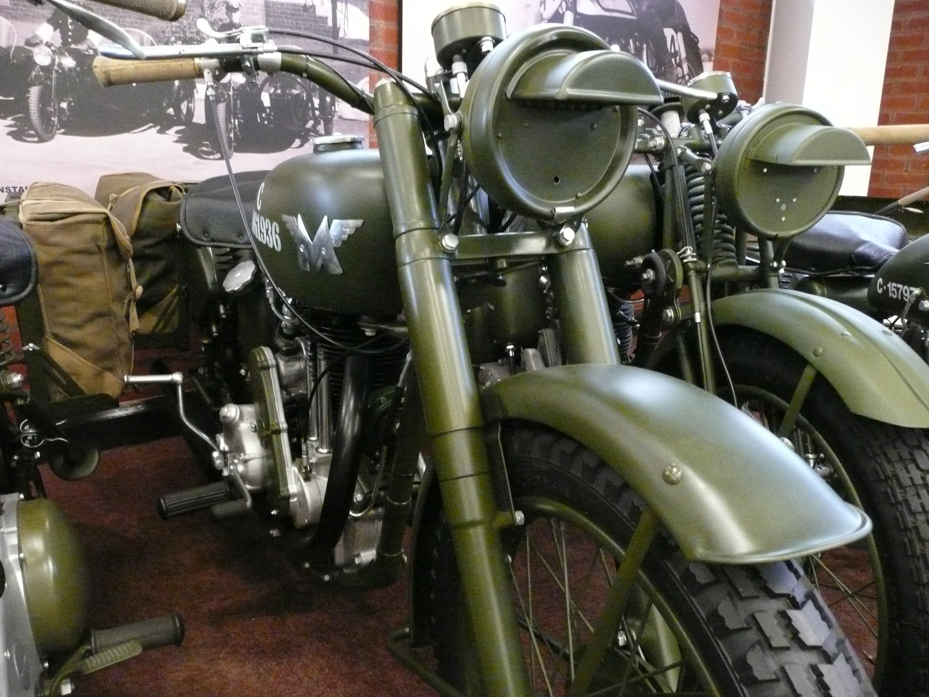 Matchless G3/L (1941)at UK National Motorcycle Museum